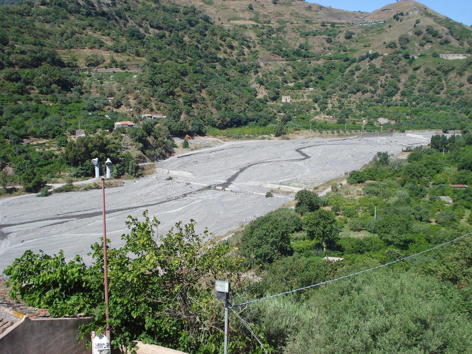 River Agro (sight from the teraace of SS. Pietro e Paolo d'Agro)